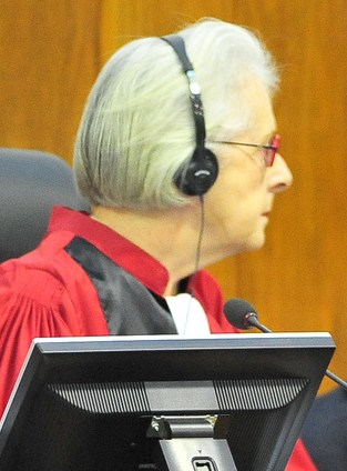 Silvia Cartwright